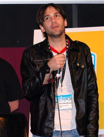 Sunday, March 14, 2010 at the Alamo Lamar in Austin, Texas